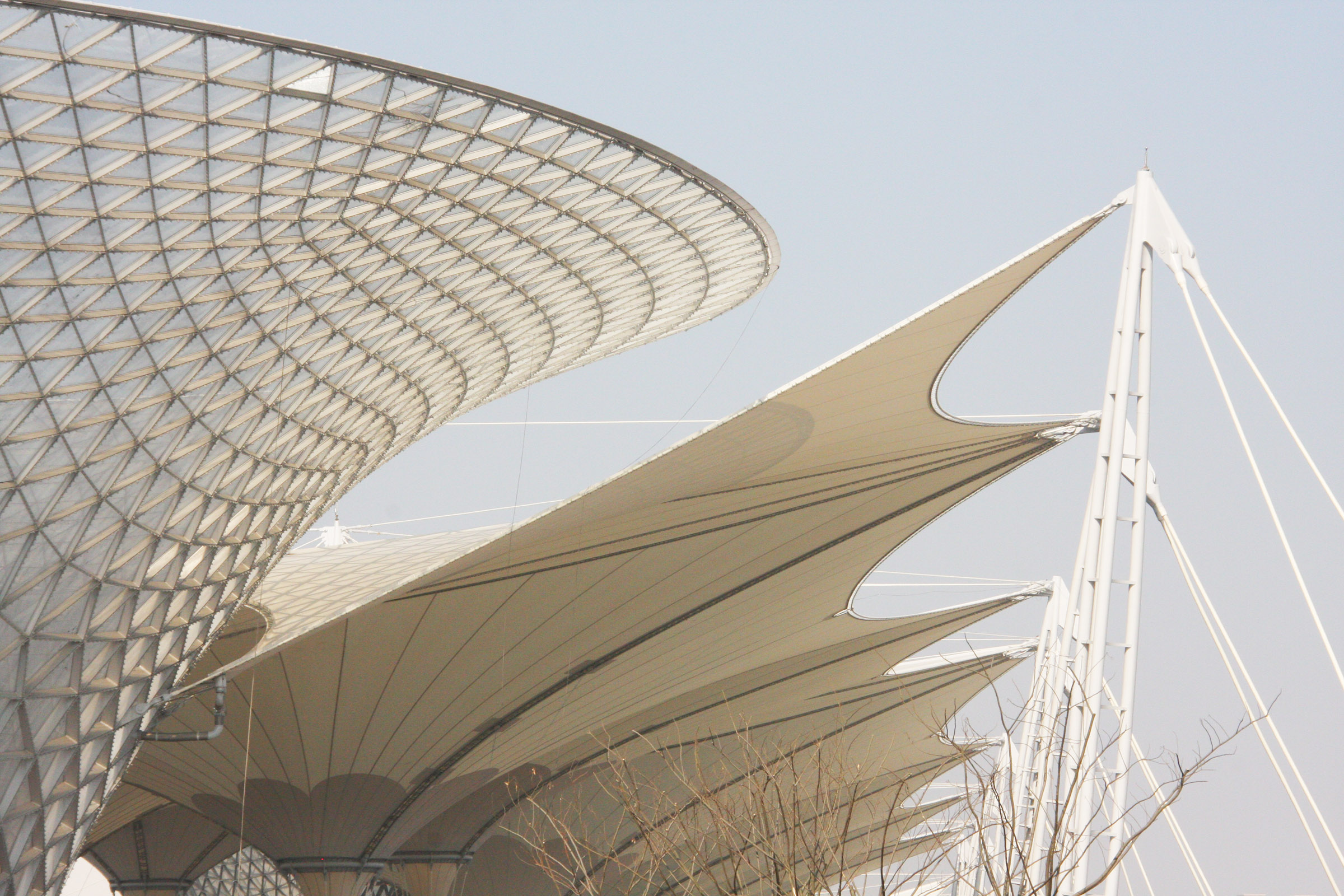 Completed Construction of Expo Axis, Shanghai